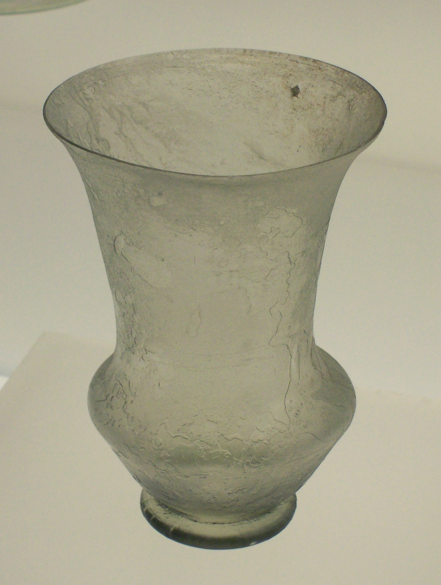 Roman drinking glass. Typology: Morin form 98 and Isings form 36b.